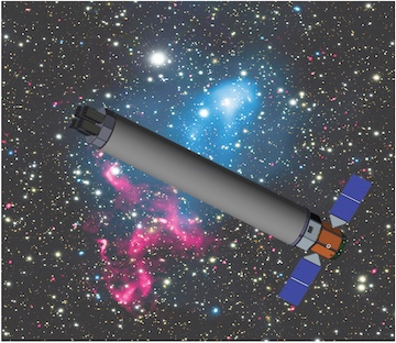 This is an artist conception of the Arcus X-Spectrometer MIDEX instrument on orbit.